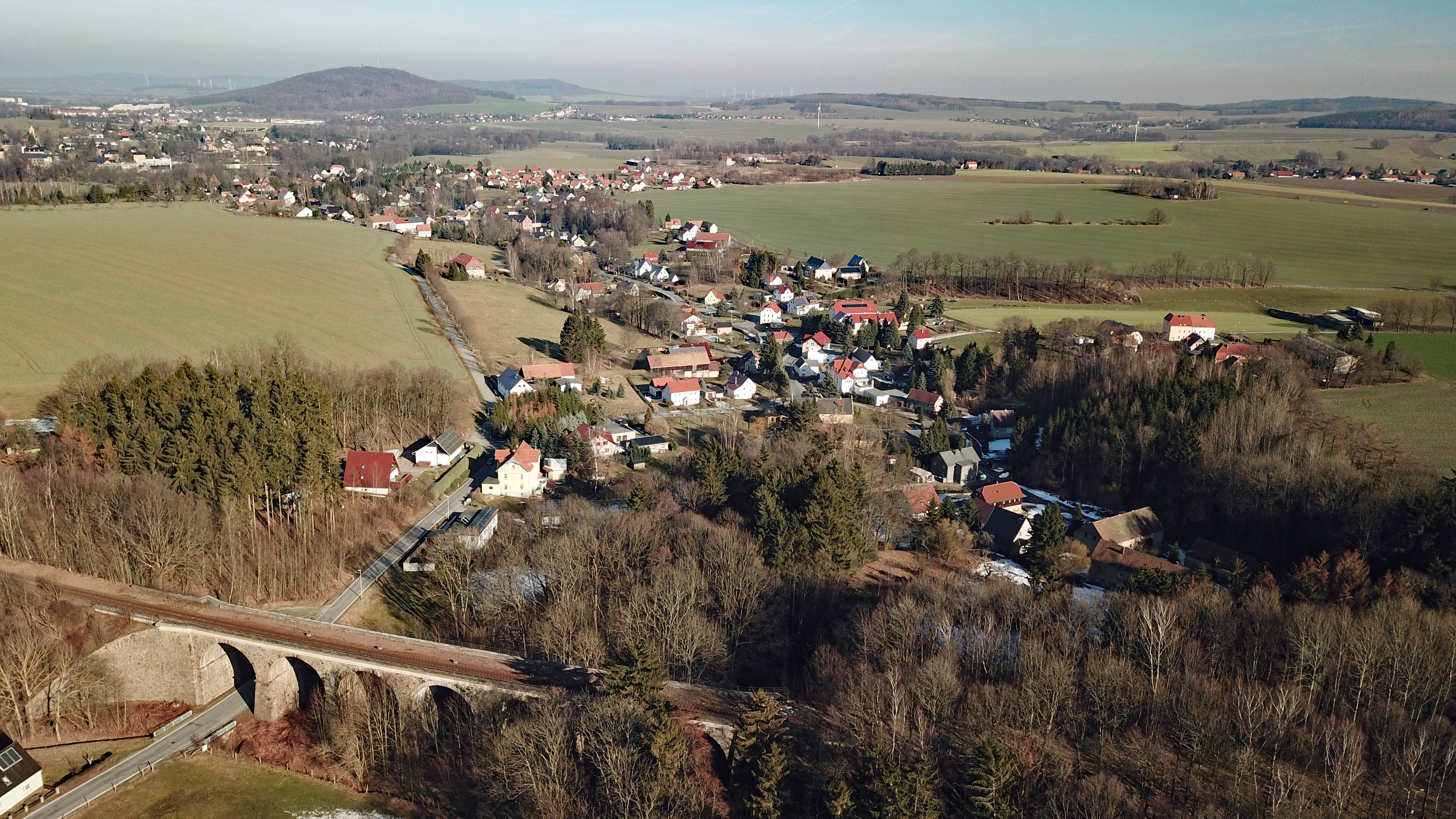 Großschweidnitz, Saxony, Germany